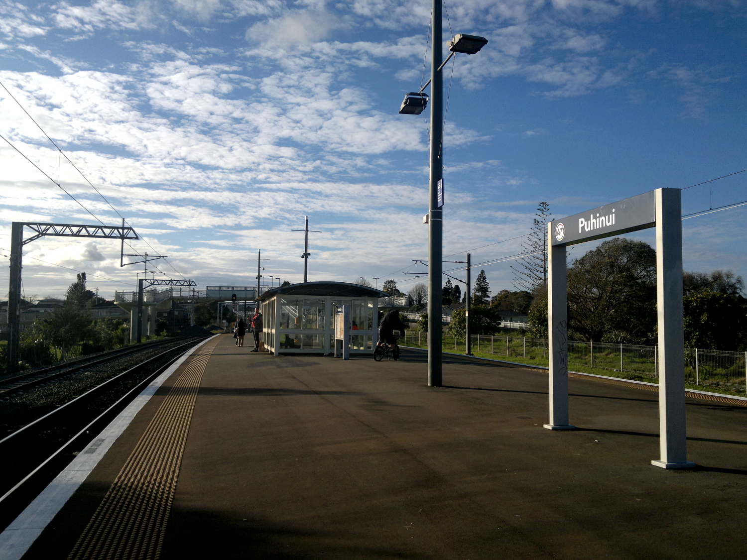 Looking northward from Puhinui Train Station's platform.